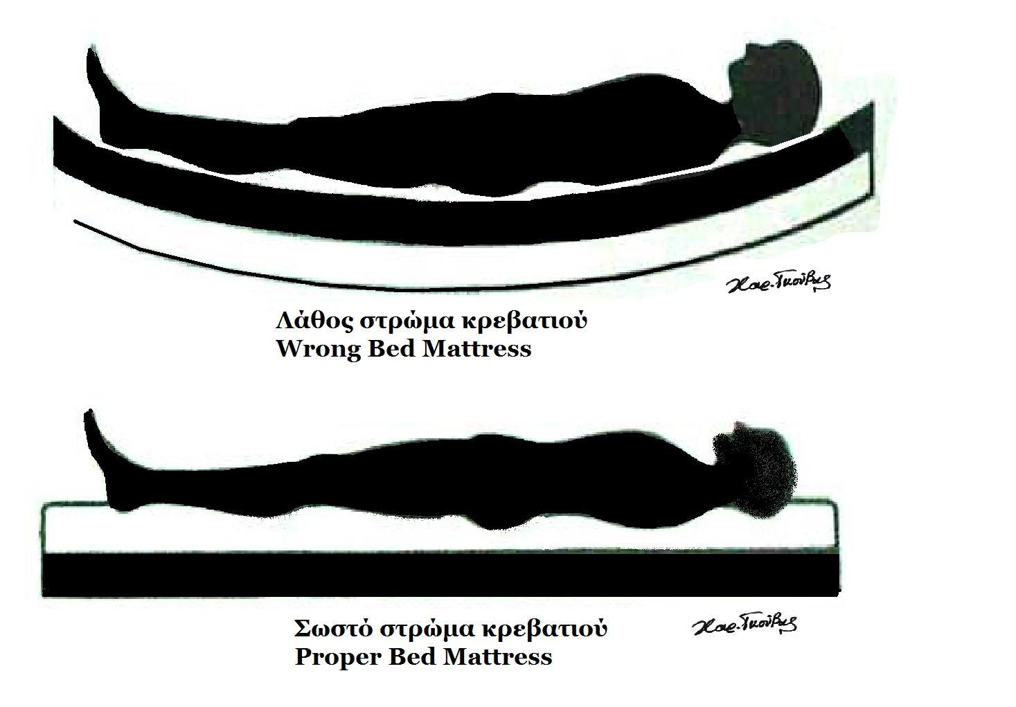 Wrong and proper bed mattress